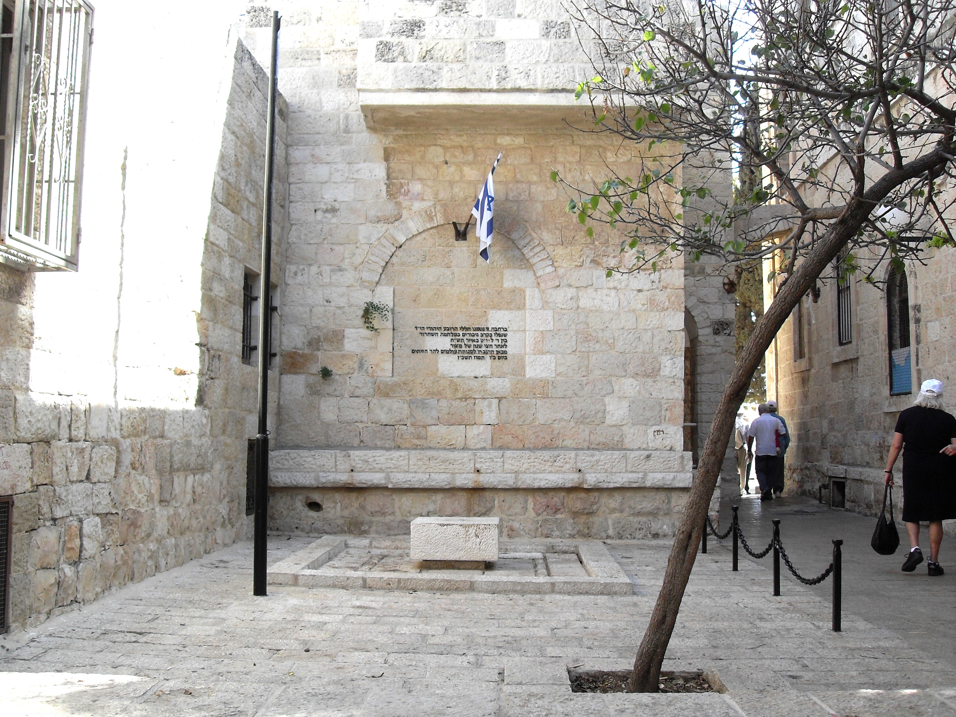 Old Jerusalem War Memorial in the Jewish Quarter, Gal'ed (aka Ha-Galed) street, Communal grave of the Jewish Quarter fighters in 1948 in Batey Mahase Square.